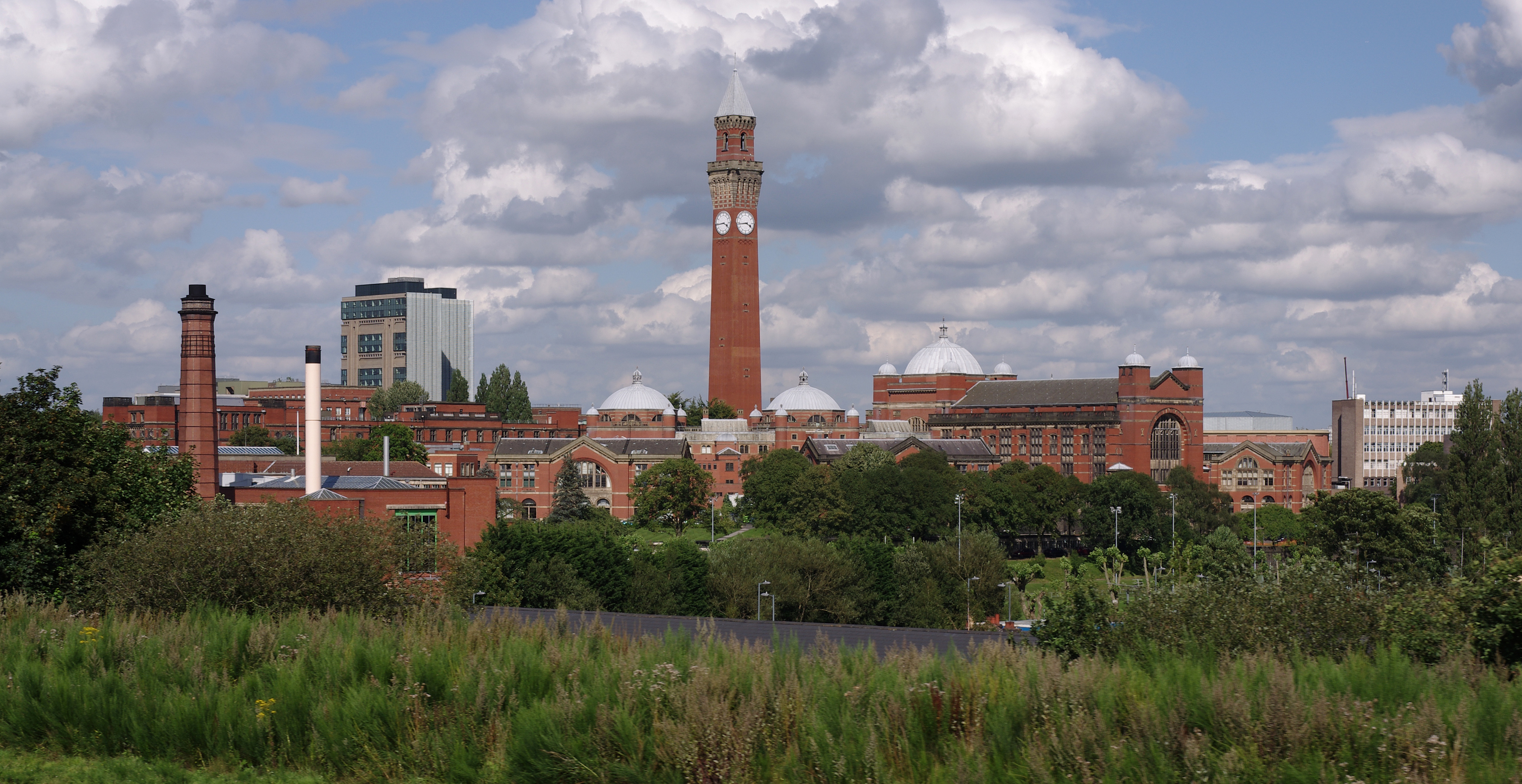 The University of Birmingham, viewed from an HST set heading north.